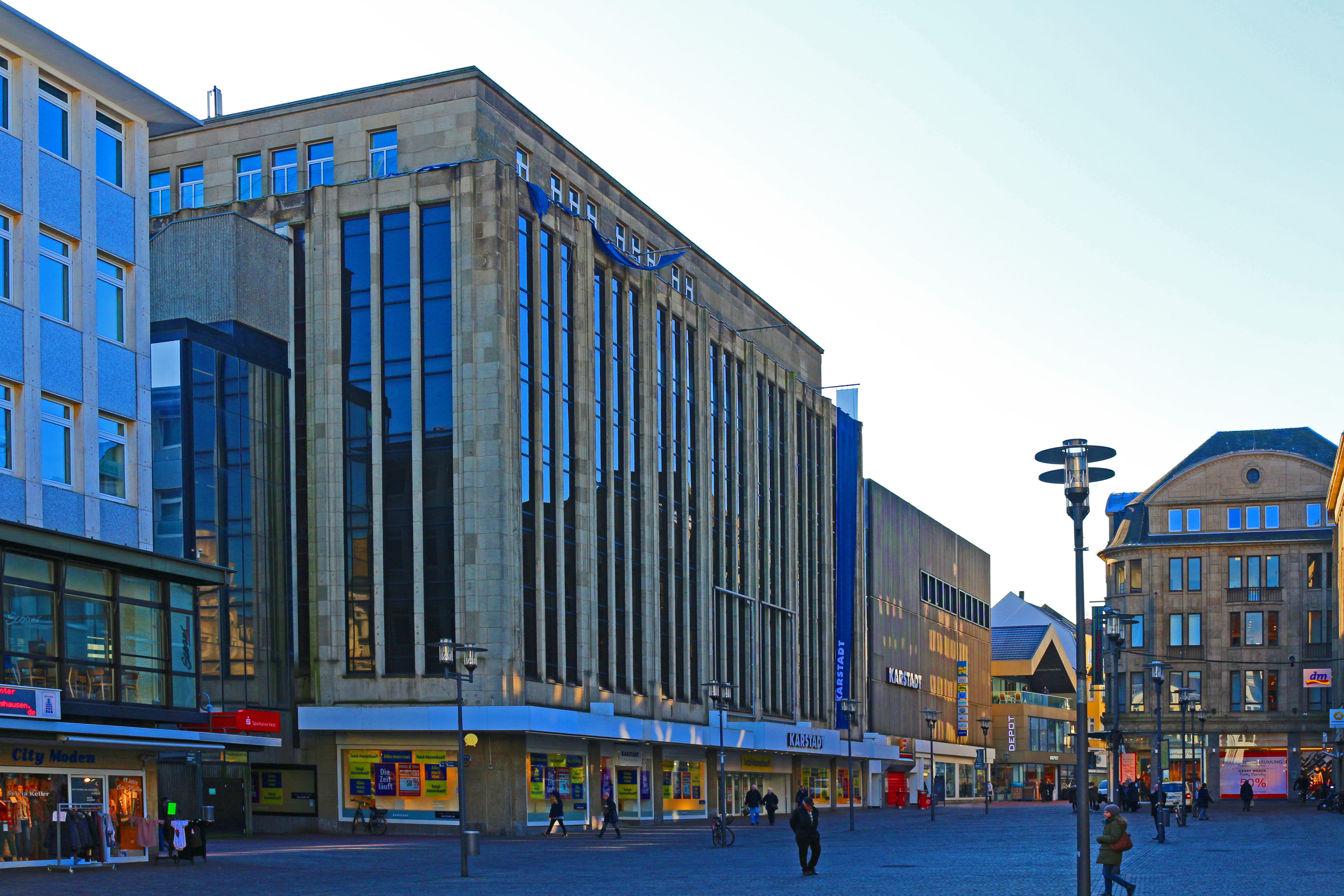 "Karstadt"-store at the central place - Recklinghausen, North Rhine-Westphalia, Germany